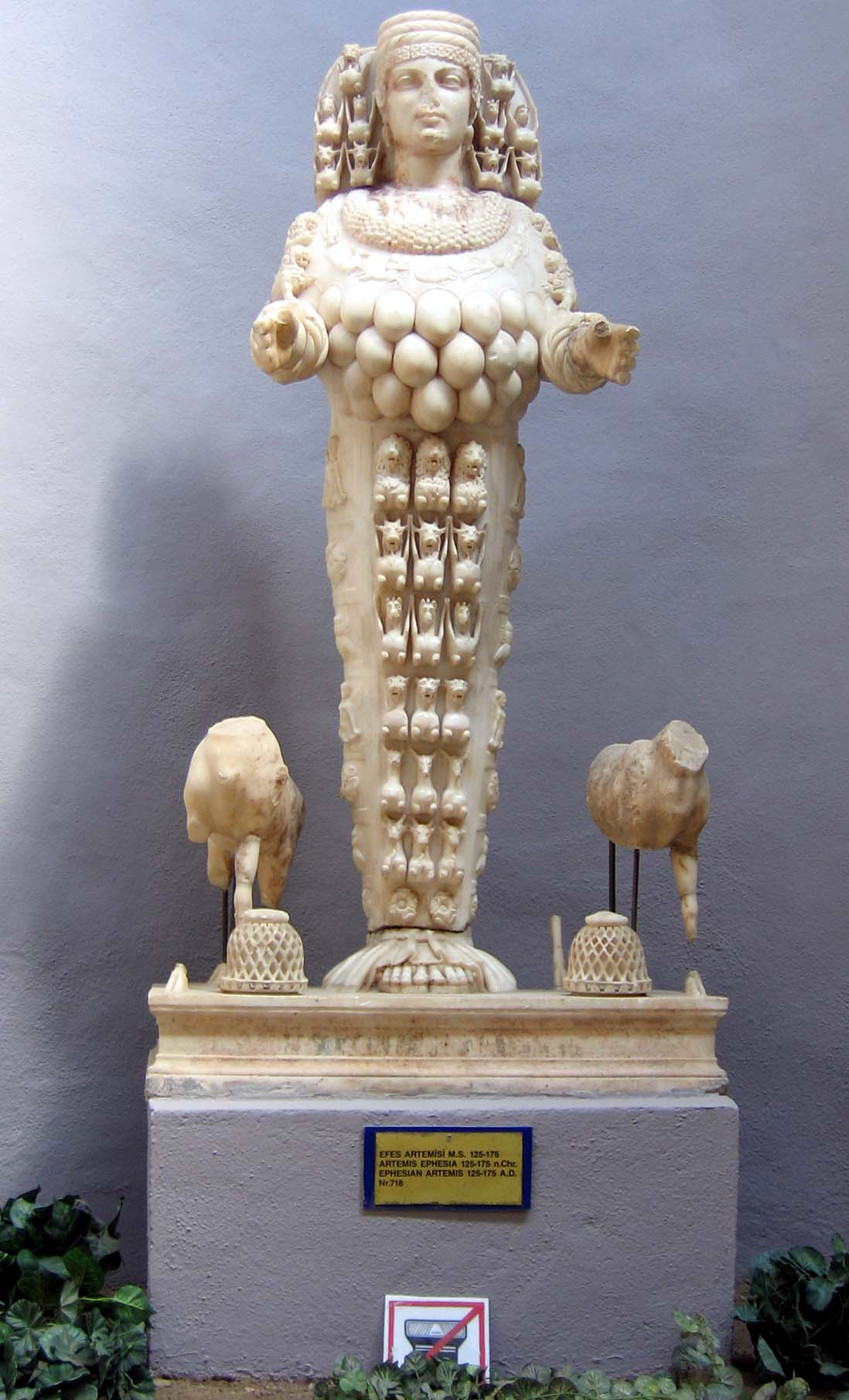 One of the statues of Artemis recovered from the Temple of Artemis, at the Ephesus Archaeology Museum.